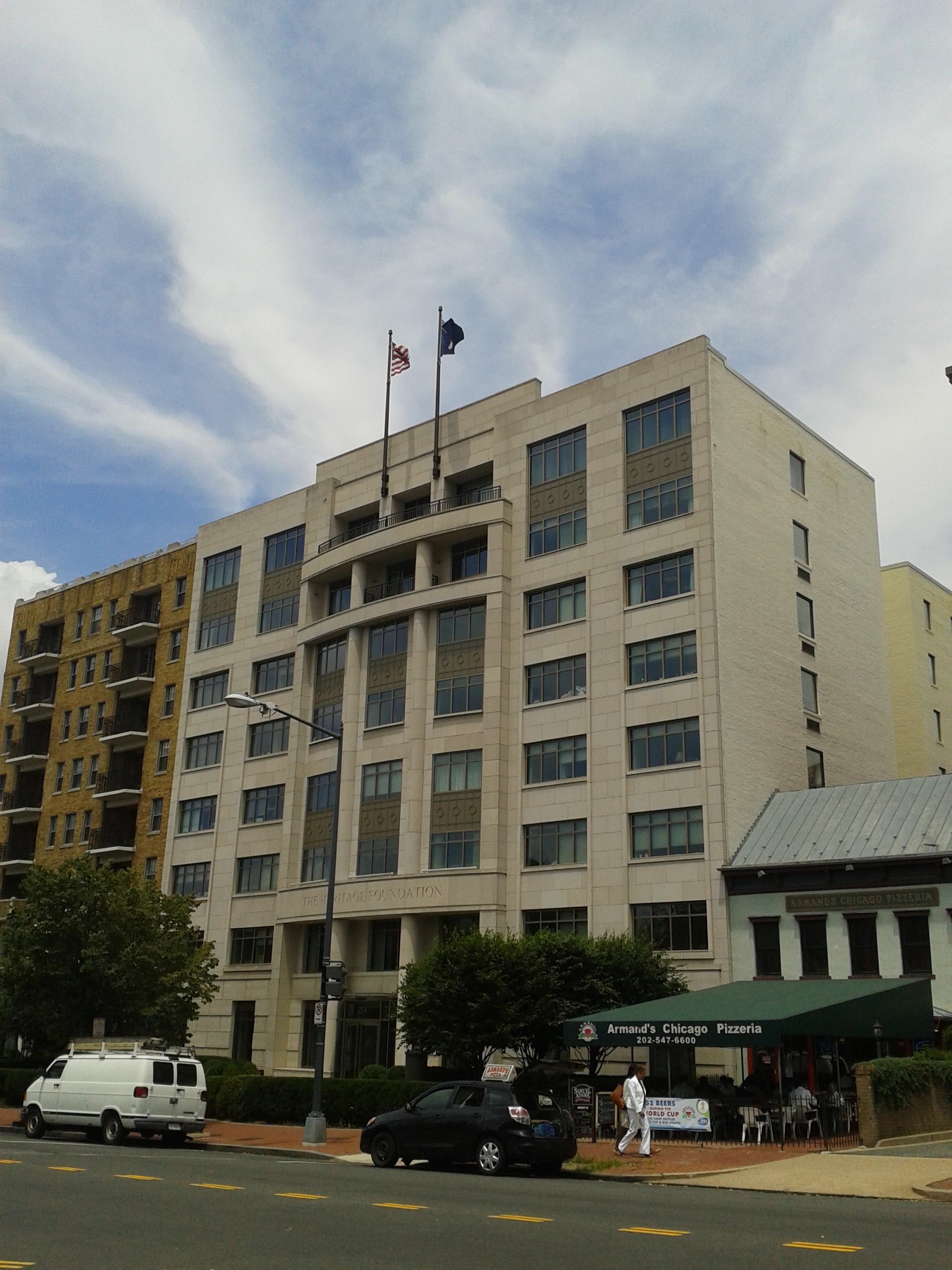 The Heritage Foundation building